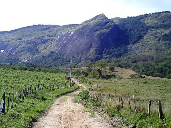 yes maravilhoso